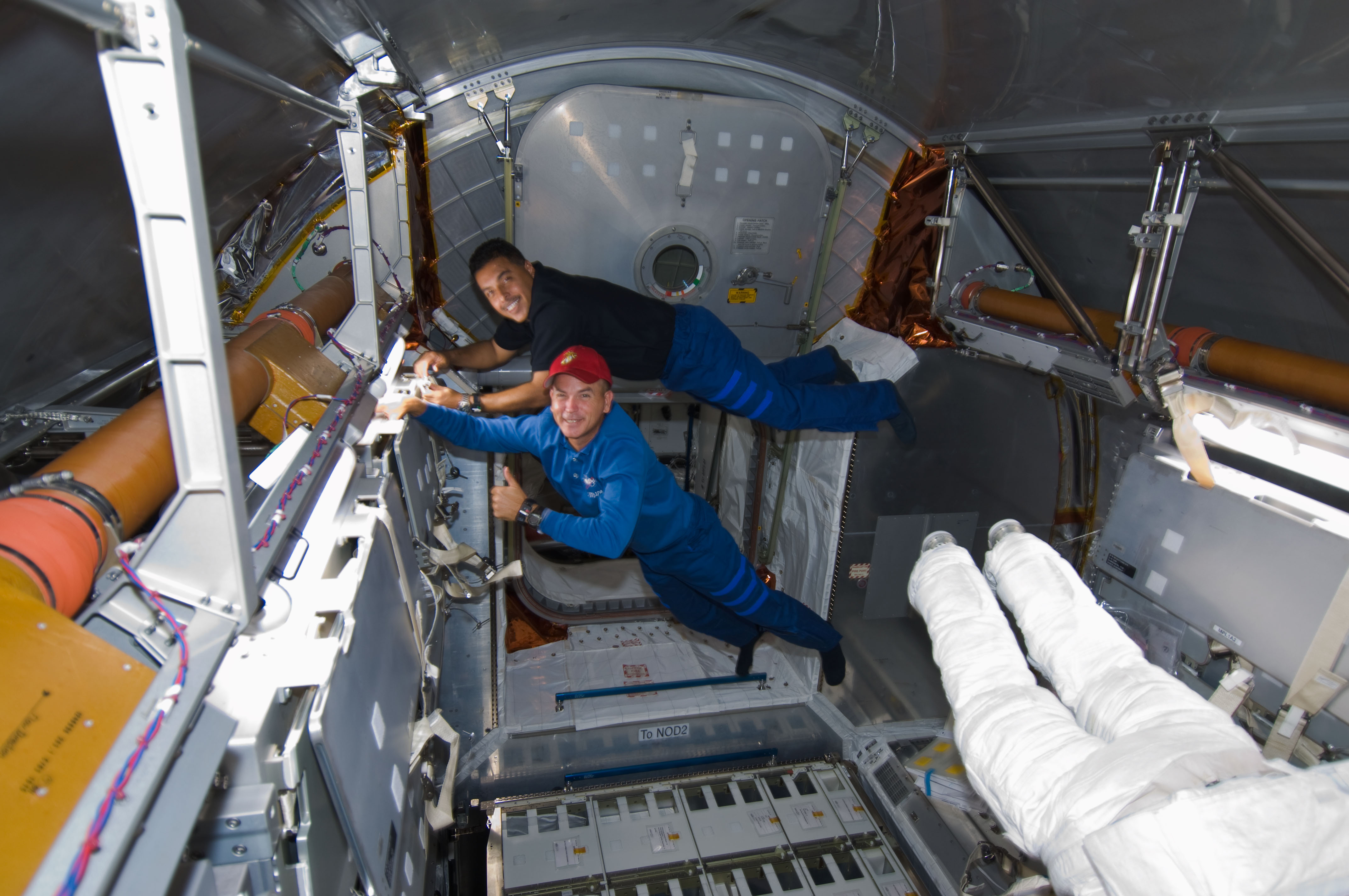 NASA astronauts Rick Sturckow (foreground) and Jose Hernandez, STS-128 commander and mission specialist, respectively, work in the Leonardo Multi-Purpose Logistics Module (MPLM), temporarily attached to the International Space Station while Space Shuttle Discovery remains docked with the station. An empty Extravehicular Mobility Unit (EMU) spacesuit floats nearby inside the module.